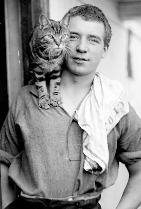 Perce Blackburow with Mrs Chippy (Ship's cat on the 1914 Endurance expedition)